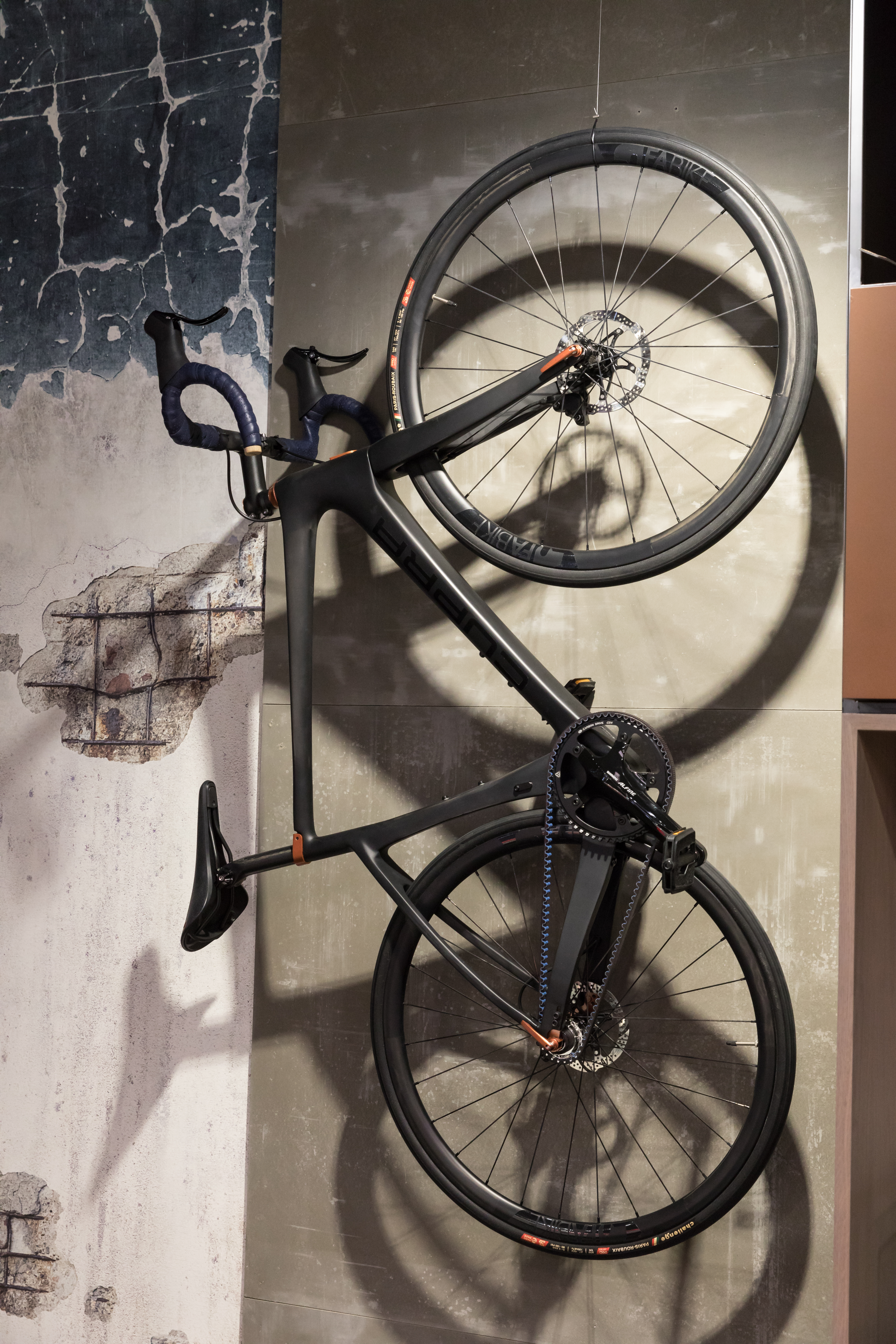 Geneva International Motor Show 2018